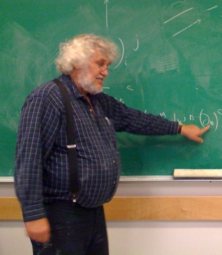 Dr. William G. Unruh is teaching a class on General Relativity